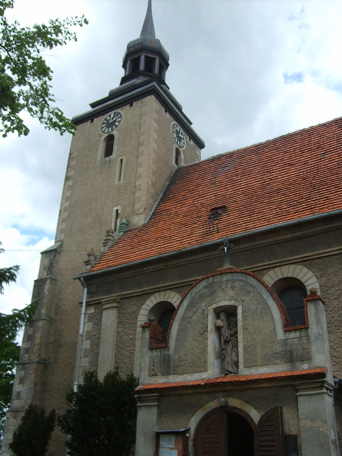 Palace in Mchy in Poland, in Greater Poland Voivodeship